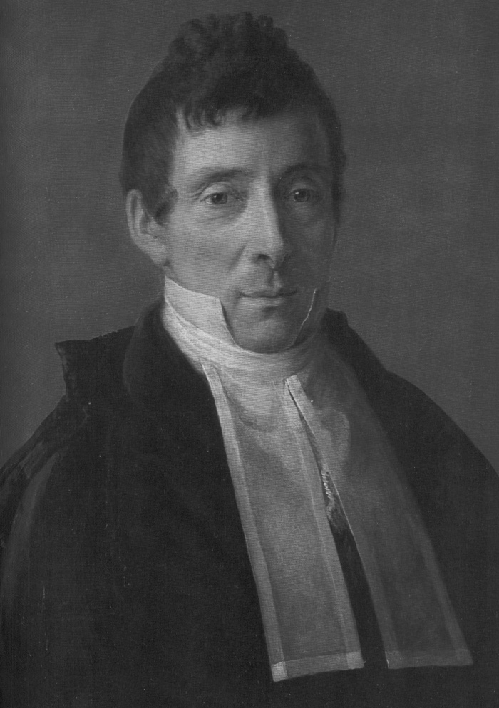 Portrait of Ludwig von Roll (1771-1839), founder of the Von Roll company, created around 1825.